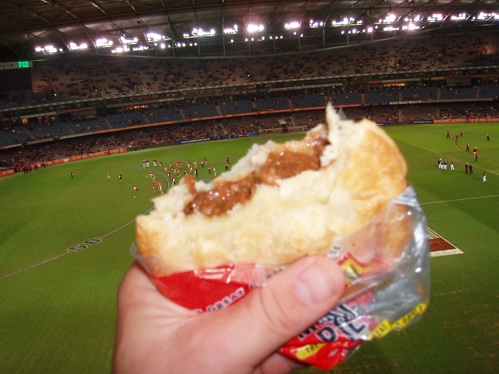 Four'N Twenty Pie, AFL football in the background.